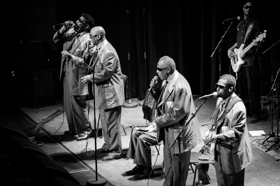 The Blind Boys of Alabama with guest Knut Reiersrud at Cosmopolite. The concert took place on 06. April 2018 in Oslo. Lineup: Eric “Ricky” McKinnie (vocal), Ben Moore (vocal), Paul Beasley (vocal), Jimmy Carter (vocal), Joey Williams (guitar), Austin Moore (drums), Ray Ladson (bass guitar), Peter Levin (keyboard) and Knut Reiersrud (guitar).